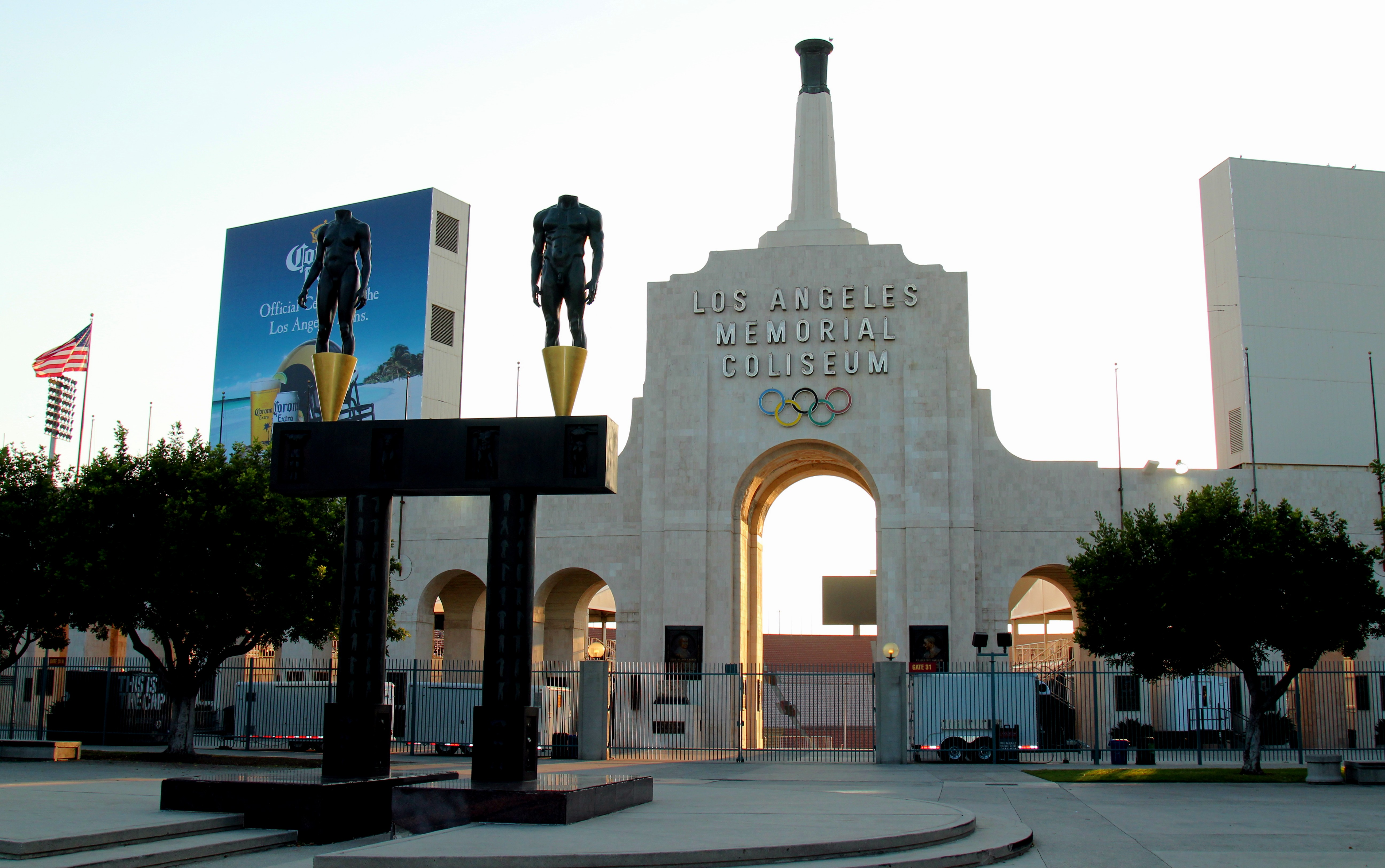 1932 Olympic Games 1984 Olympic Games 2024 ?? Olympic ?? Metro EXPO Line : USC Expo Park Station